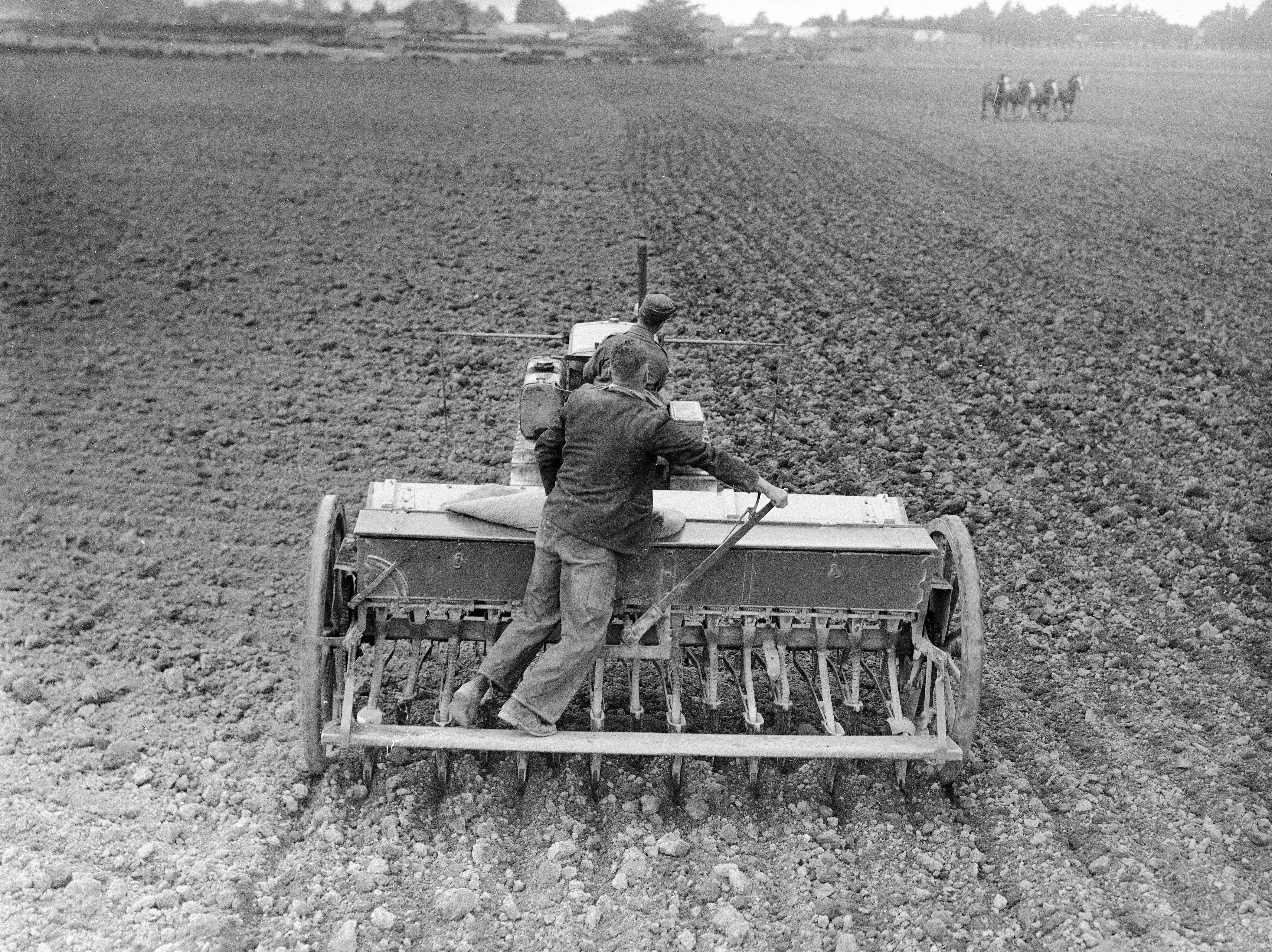 Drilling a field on the Canterbury Agricultural College farm in 1948.